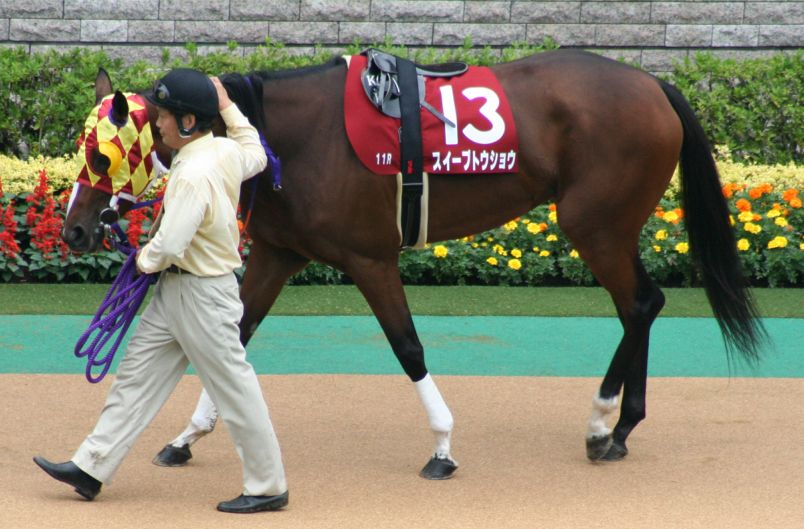 Sweep Tosho(Rracehorse, Tokyo Racecourse)